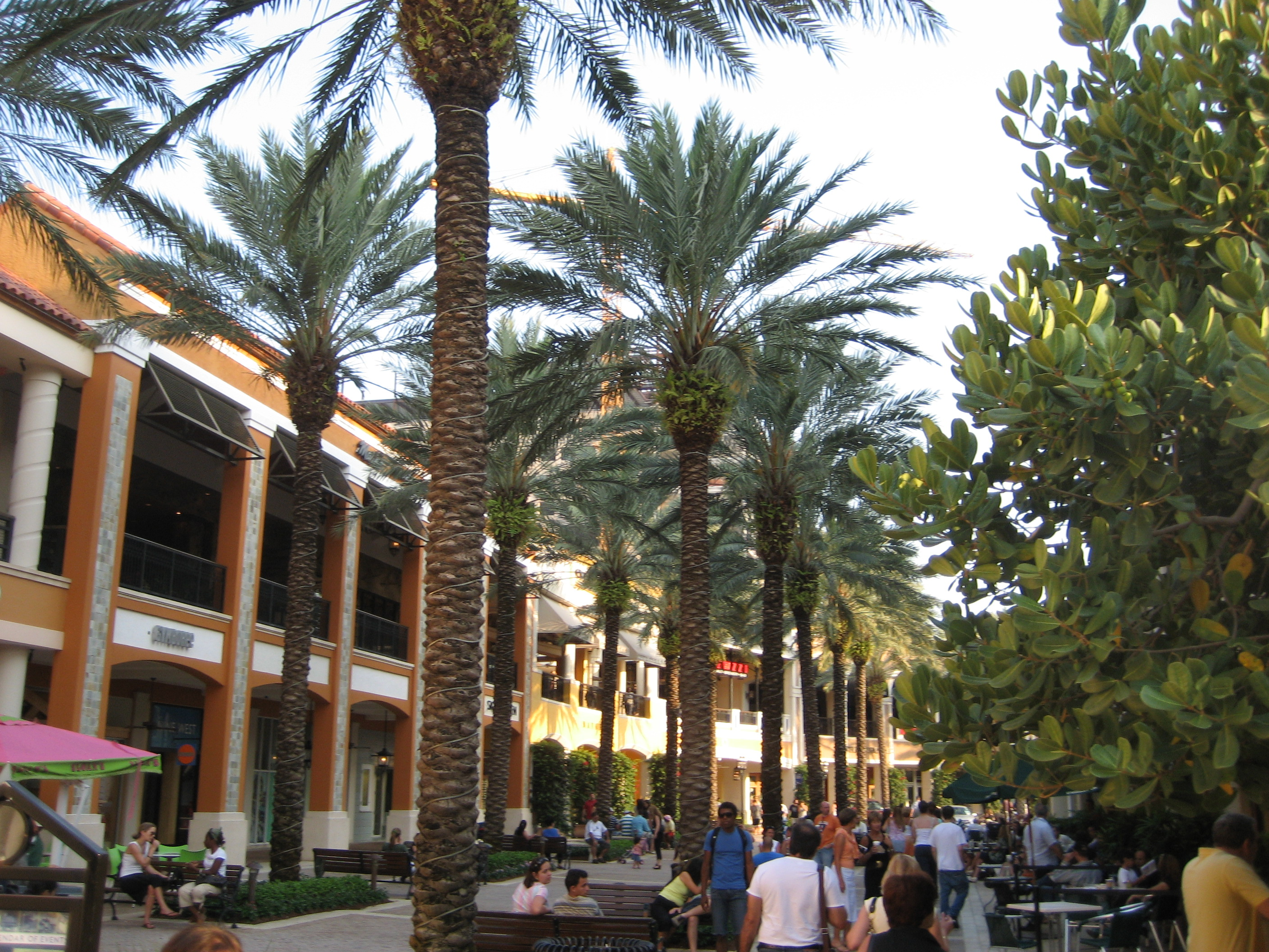 A section of the palm tree lined streets of CityPlace, located in Downtown West Palm Beach, Florida